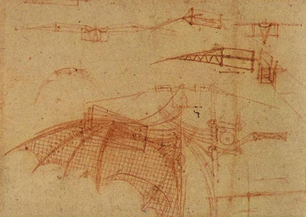 Design for a Flying Machine